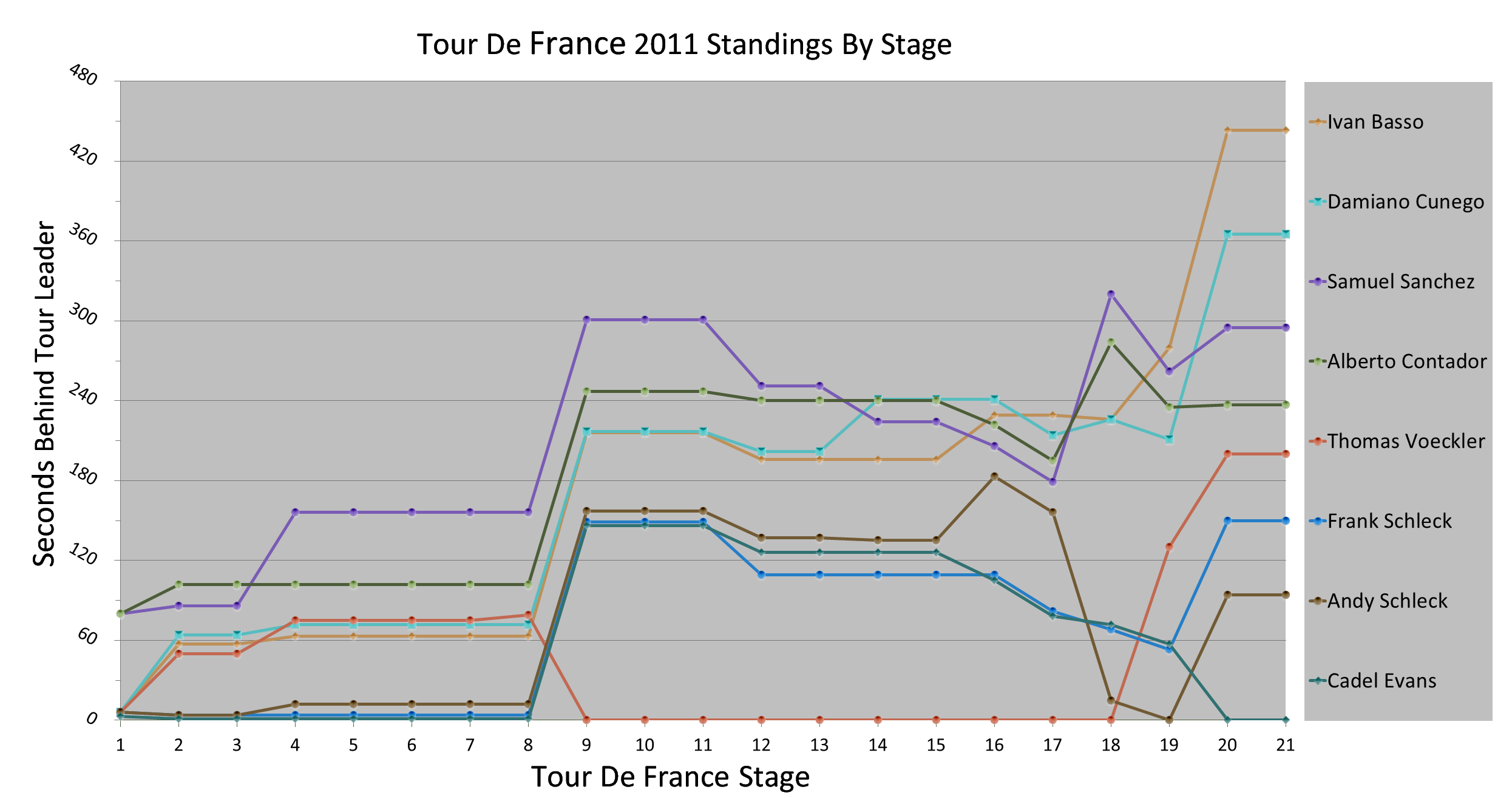 A chart a number of prominent riders of the 2011 Tour De France standings, created in Excel 2010.